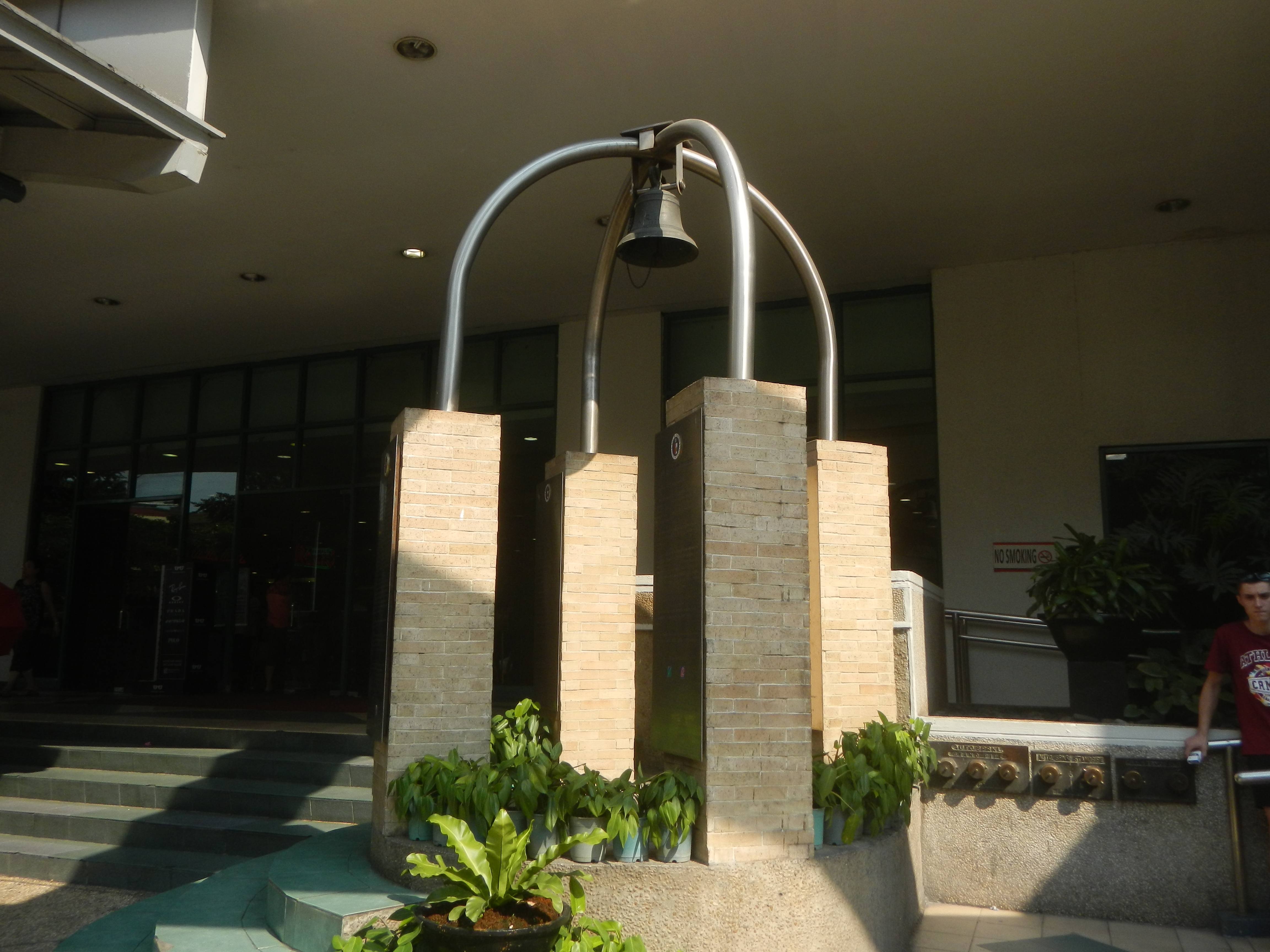 The Jesuit Bell 1932 (Robinsons Place Manila) in Robinsons Place Ermita Manila 14°34'35"N 120°59'2"E Robinsons Place Manila Padre Faura Street 14°34'42"N 120°58'59"E Padre Faura Street (Note: Judge Florentino Floro, the owner, to repeat, Donor Florentino Floro of all these photos hereby donate gratuitously, freely and unconditionally all these photos to and for Wikimedia Commons, exclusively, for public use of the public domain, and again without any condition whatsoever).